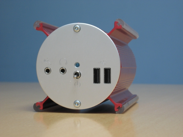 Artec ThinCan with Geode SC2200, a thin client computer